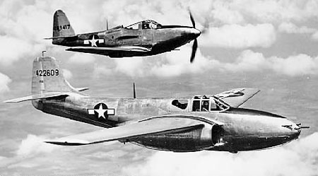 P-59A (S/N 44-22609, first production -A model) and P-63 (S/N 42-69417) in flight.